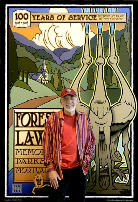 David Edward Byrd in front of the poster he created for Forest Lawn The poster featured in this photograph can be seen at Forest Lawn Poster with an explanation by the artist.